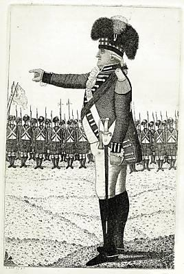 Engraved portrait of Sir James Grant with a view of his Regiment, the Strathspey or Grant Fencibles